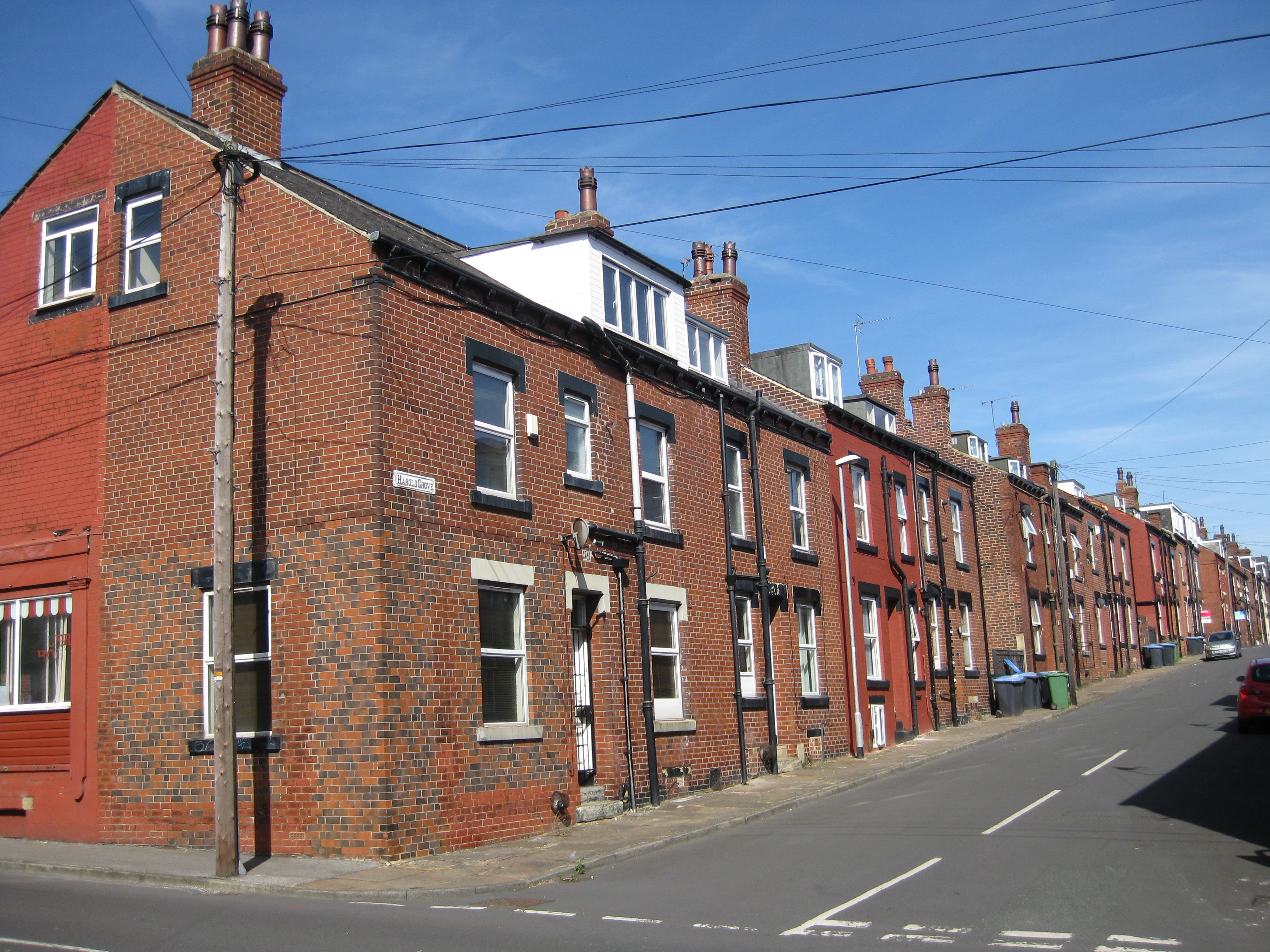 Harold Grove, Leeds LS6 1PH viewed from Thornville Road. Street-fronted back to back terraces